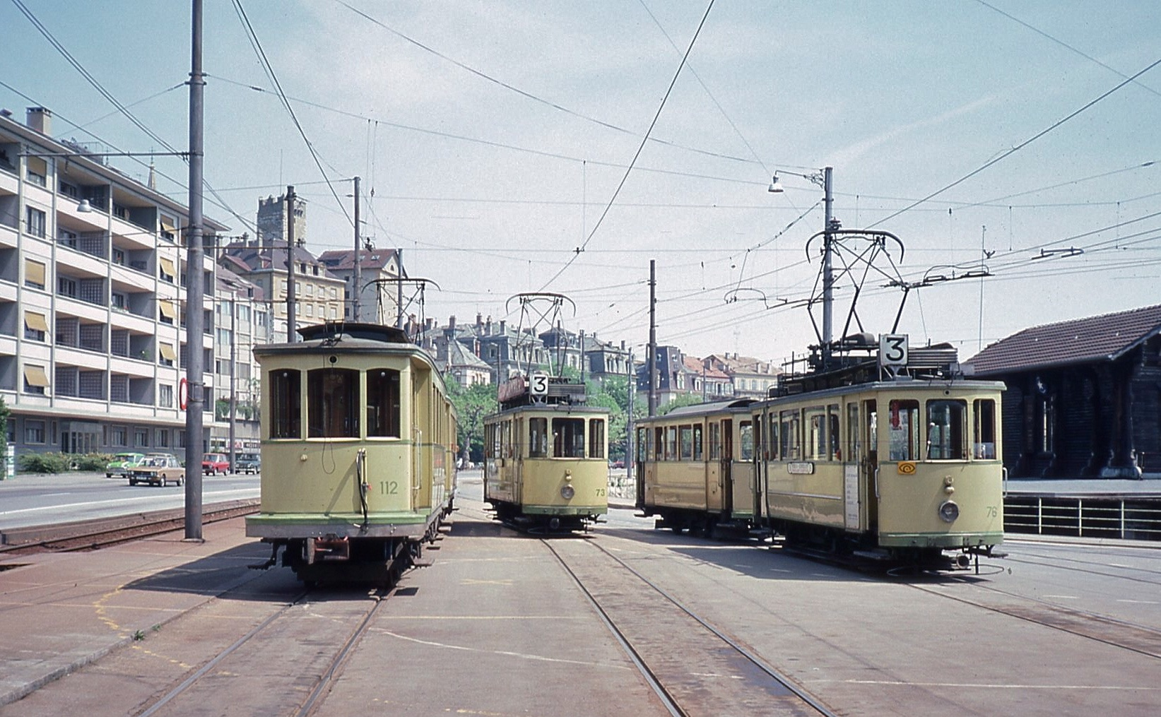 Trams in front of the Neuchatel tram depot (carhouse) in 1976.